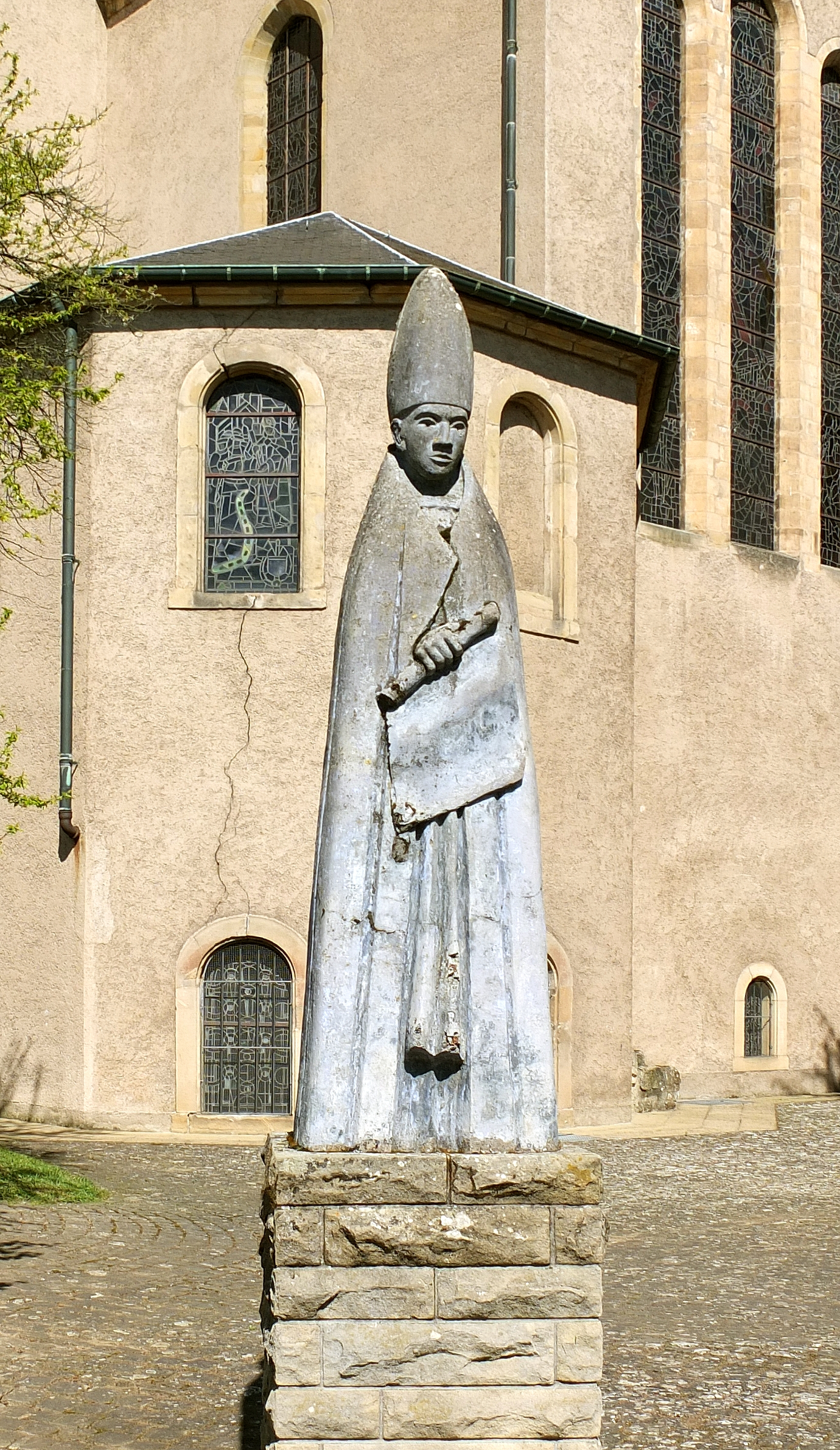 Statue of Saint Willibrord behind the "St. Willibrord Basilika", Echternach, Luxembourg